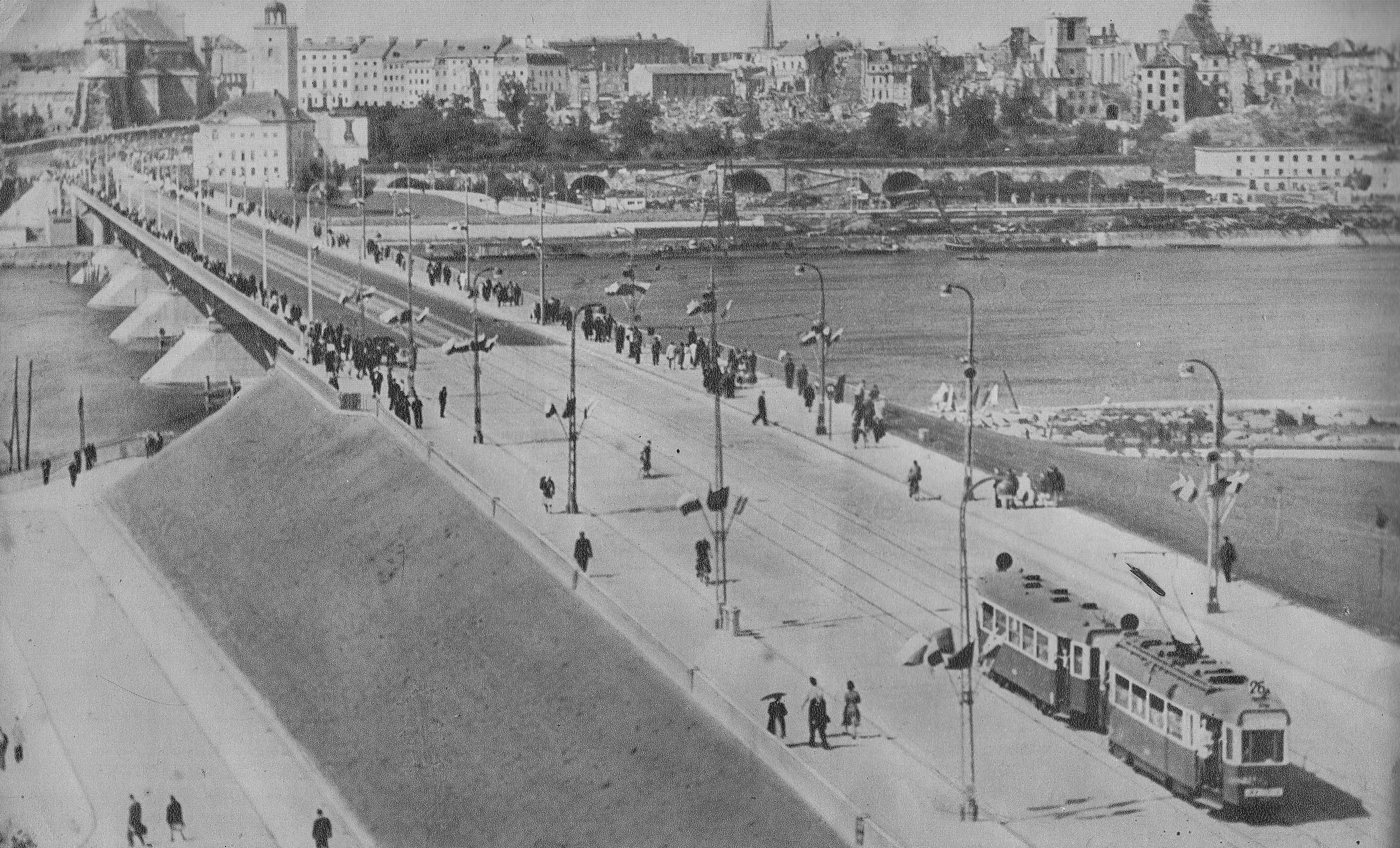 Trasa W-Z in Warsaw